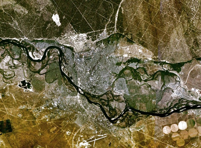 Satellite view of Semei, Kazakhstan. Landsat image.